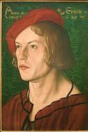 Portrait of "Jakob Meyer zum Pfeil" (+ vor 1515), a son of Nikolaus Meyer zum Pfeil (+ 1500); master from Basel (end of 15th century, beg. of 16th century)